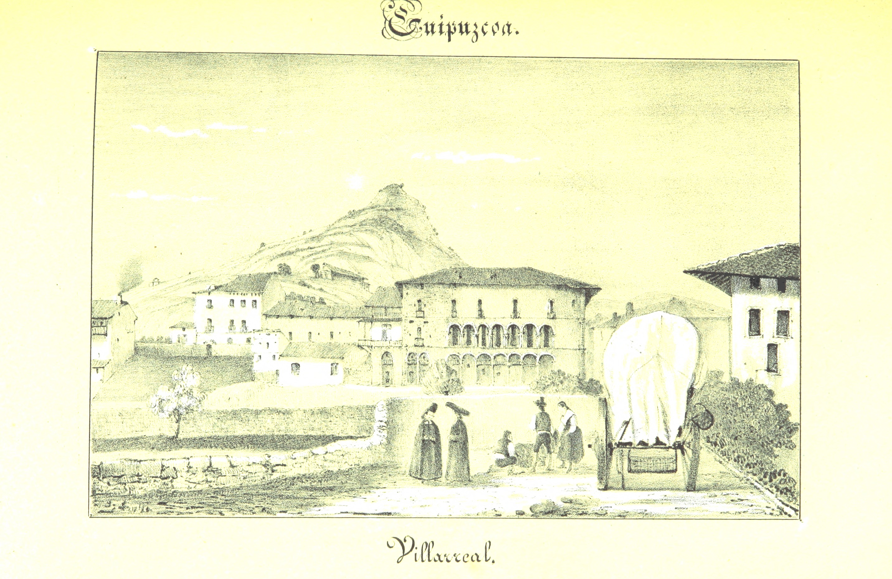 Image taken from: Title: "Revista pintoresca de las provincias Bascongadas. Edicion de lujo. Adornada con vistas ... por S. Lambla. Escrita por L. M. de E. y A. A. y H. Entrega 1-45" Author: E., L. M. de - and A. y H. (A.) Contributor: A. y H., A. Contributor: LAMBLA, Julio. Shelfmark: "British Library HMNTS 10161.f.16." Page: 427 Place of Publishing: Bilbao Date of Publishing: 1844 Issuance: monographic Identifier: 001024664 Explore: Find this item in the British Library catalogue, 'Explore'. Download the PDF for this book (volume: 0) Image found on book scan 427 (NB not necessarily a page number) Download the OCR-derived text for this volume: (plain text) or (json) Click here to see all the illustrations in this book and click here to browse other illustrations published in books in the same year. Order a higher quality version from here.